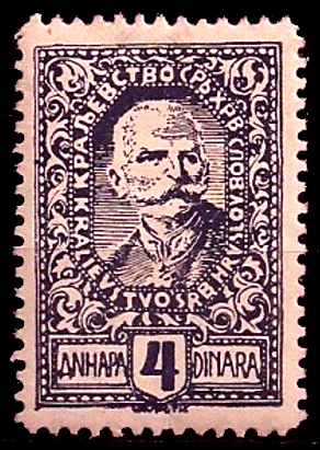 Postage stamp from the Verigar issue issued in Slovenian regions of the State of Slovenes, Croats and Serbs, 4 dinara, king Peter I Karageorge, 1920